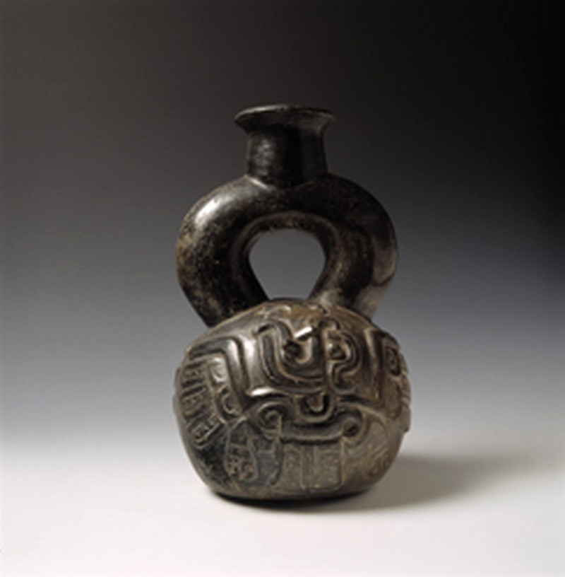 Cupisnique Ceramics. Larco Museum Collection. Lima, Peru. Free Use.